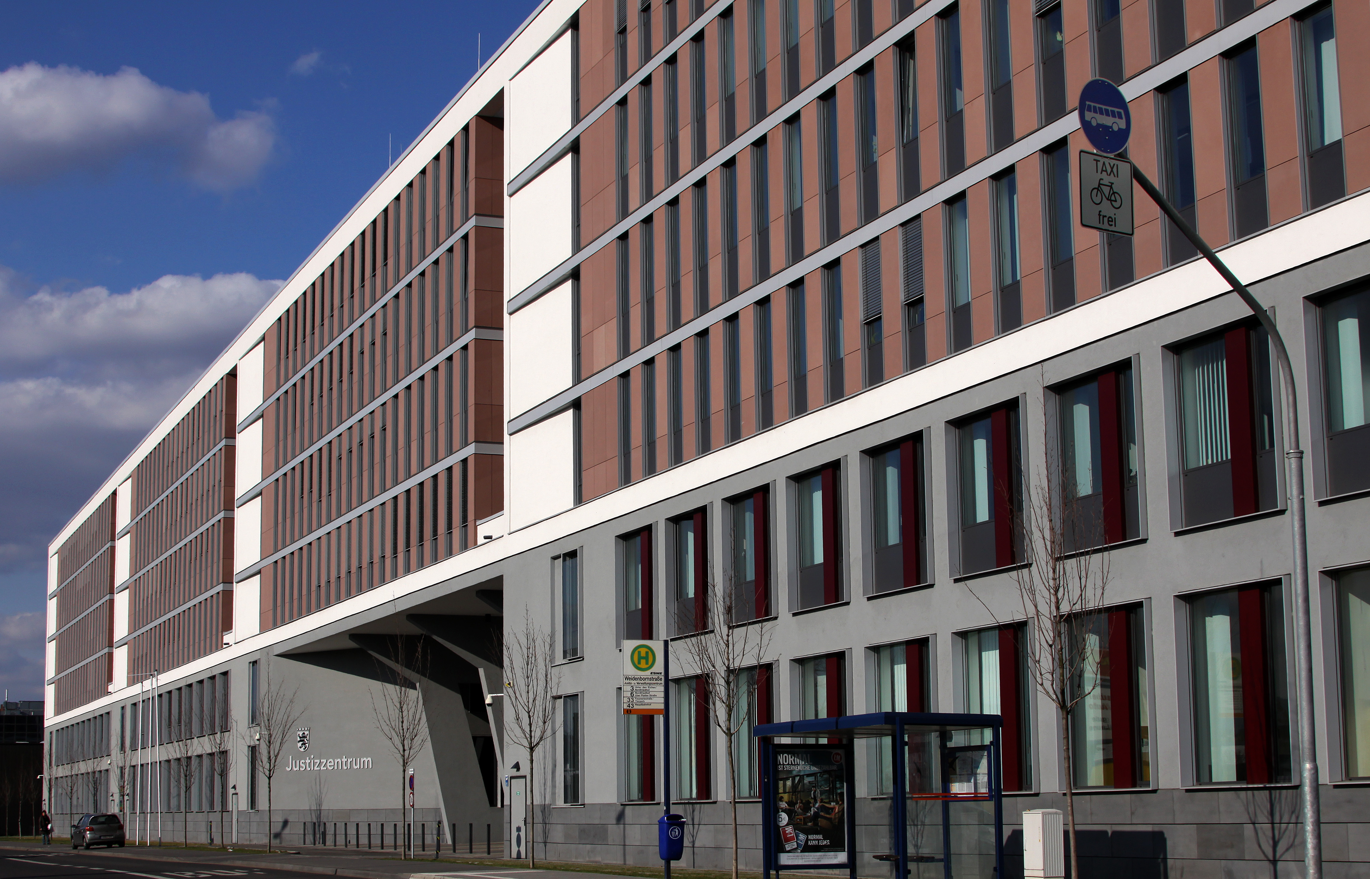 The Judiciary Center in Wiesbaden hosts several courts including the Labor Court of Wiesbaden.